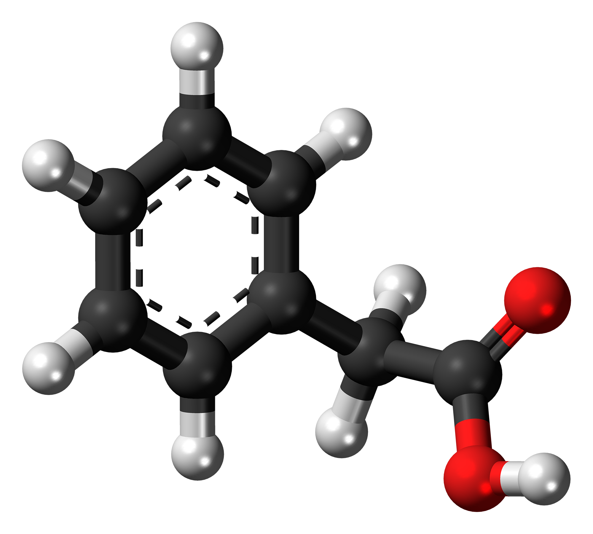 Ball-and-stick model of the phenylacetic acid molecule, a carboxylic acid found predominantly in fruits. Color code: Carbon, C: black Hydrogen, H: white Oxygen, O: red